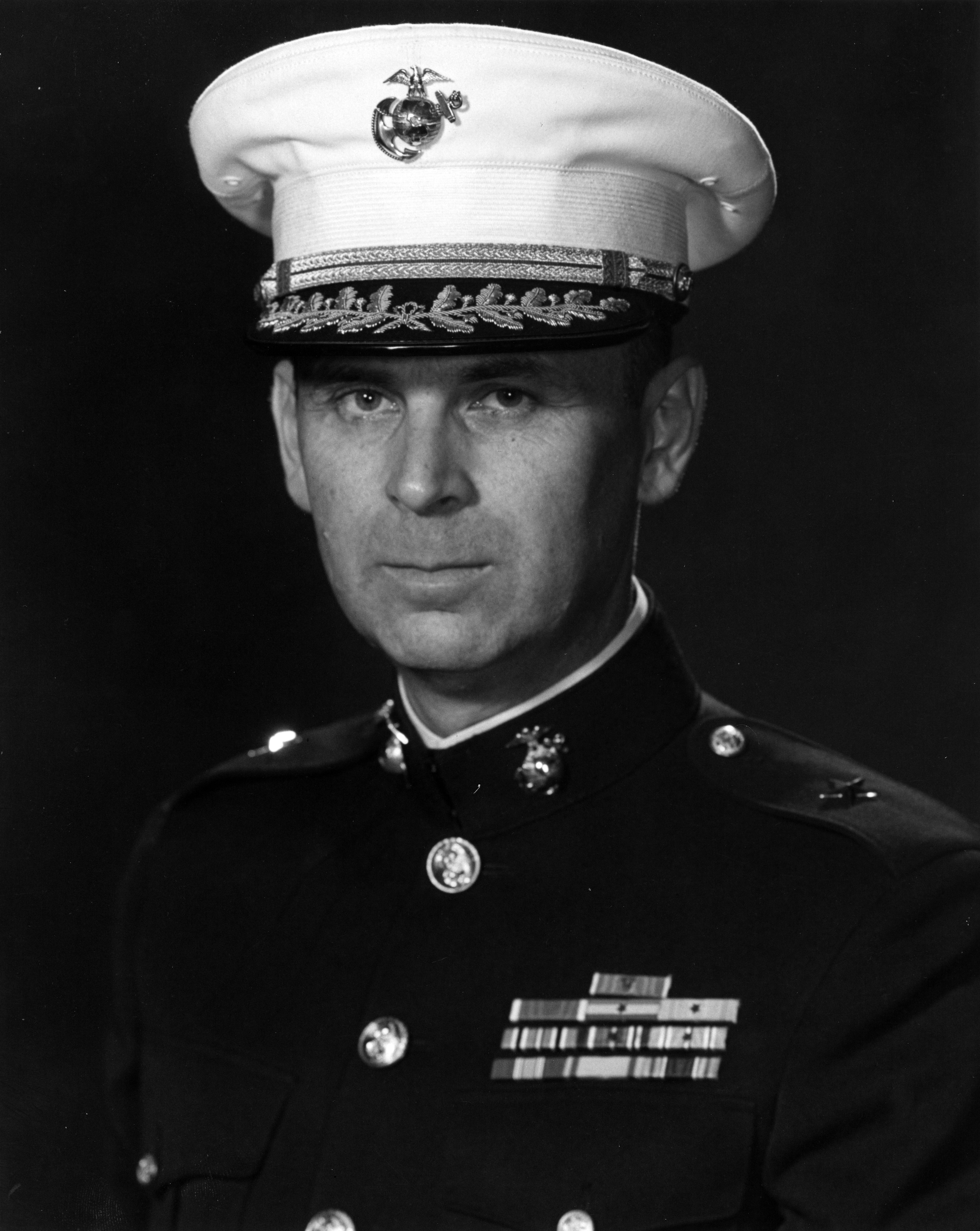 James Donald Hittle (June 10, 1915 - June 15, 2002) was a decorated officer in the United States Marine Corps with the rank of Brigadier General. He is most noted for his service as Legislative Assistant to the Commandant of the Marine Corps, between June 1952 - January 1960. Following his retirement from the Marine Corps, Hittle served as United States Assistant Secretary of the Navy (Manpower and Reserve Affairs) from March 1969 until March 1971.